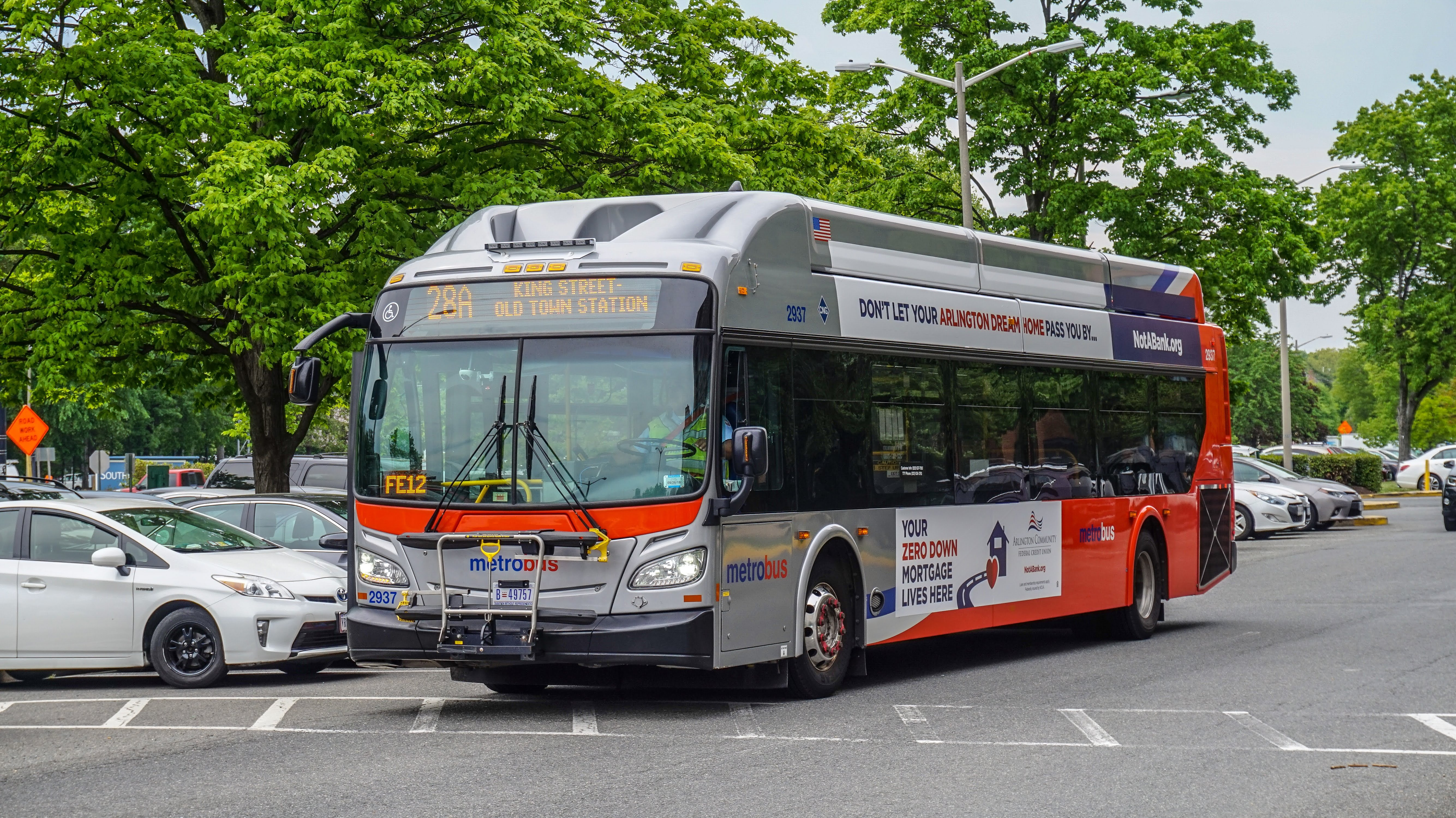 Here is a WMATA 2016 New Flyer Xcelsior XN40 on Route 28A at Southern Tower